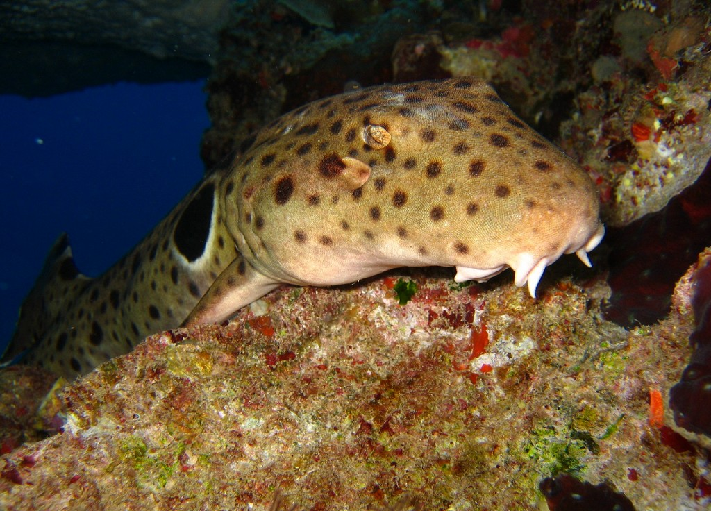 Portrait of an Epaulette Shark (Hemiscyllium ocellatum). Garden of Eden, Wheeler Reef, Great Barrier Reef